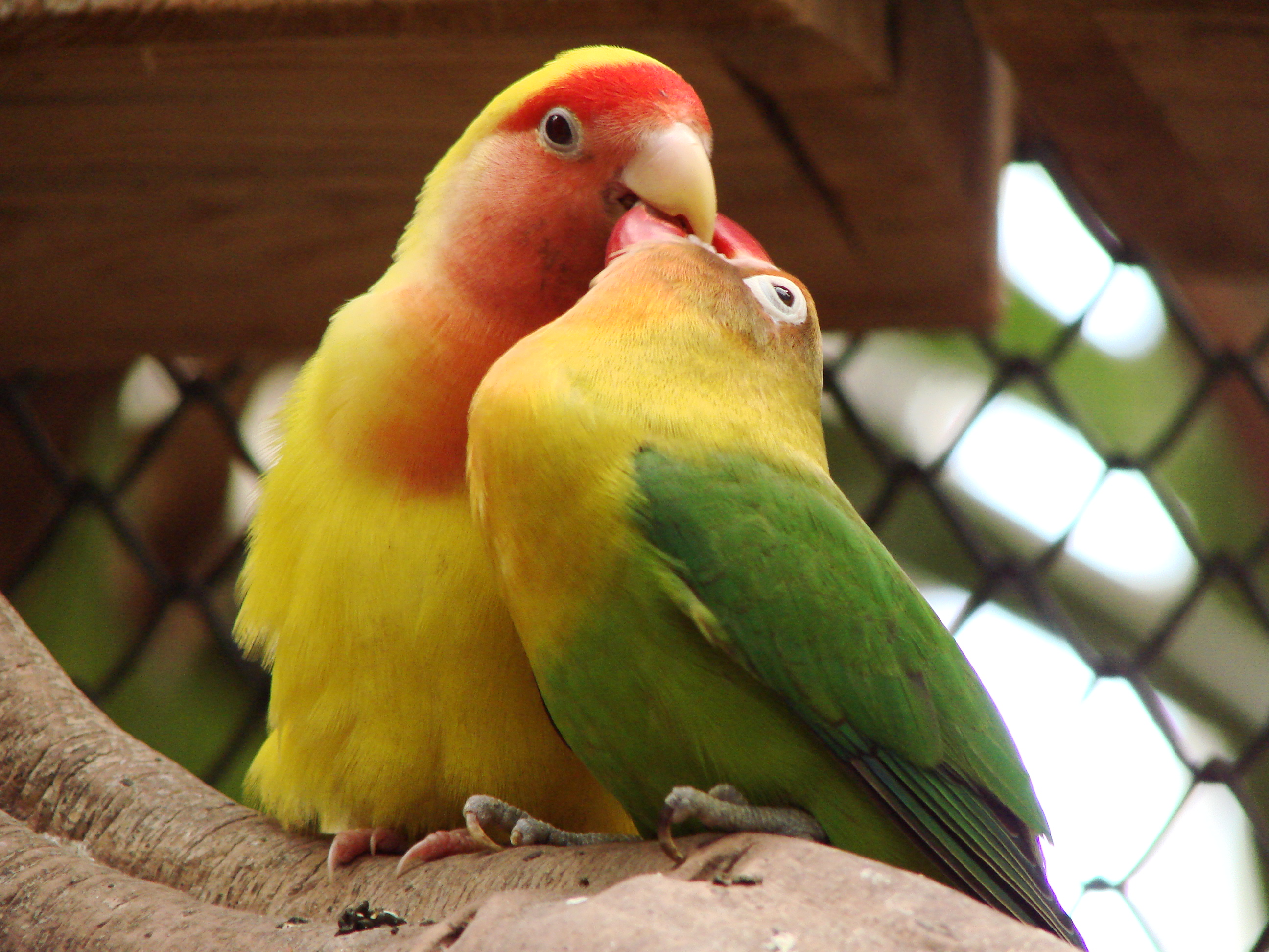 Picture taken in the zoo of Wrocław (Poland): Agapornis roseicollis (Vieillot, 1818) and Agapornis fischeri (Reichenow, 1887)